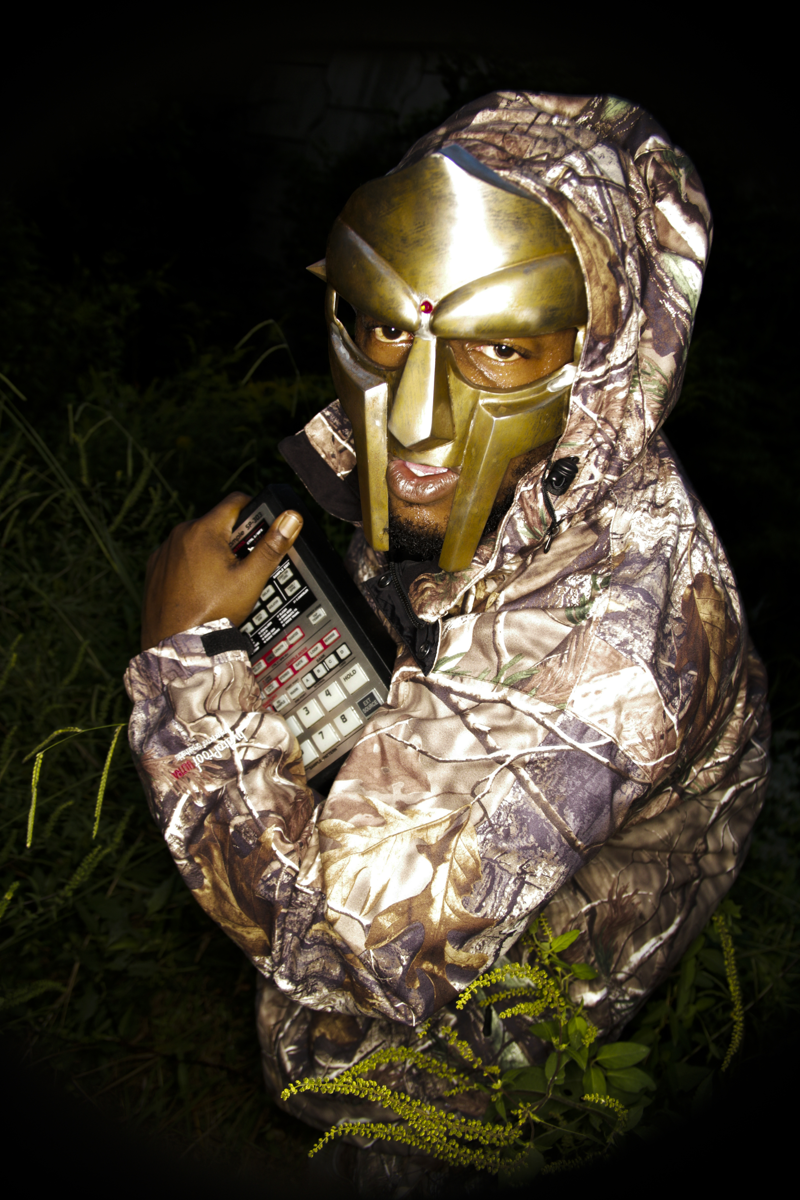 Promotional photograph of rapper and producer MF Doom for his upcoming concert at The Arches in Glasgow, Scotland.